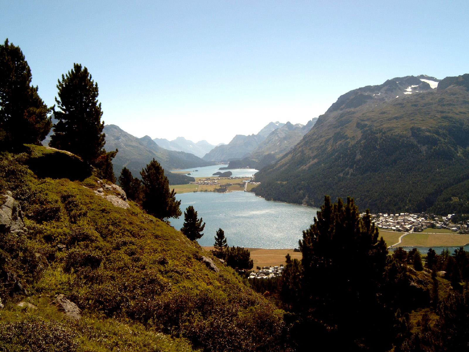 Oberengadin, Switzerland: Lej da Silvaplauna and Lej da Segl as seen from Lej dal Chöds, above St. Moritz; the trees are Pinus cembra